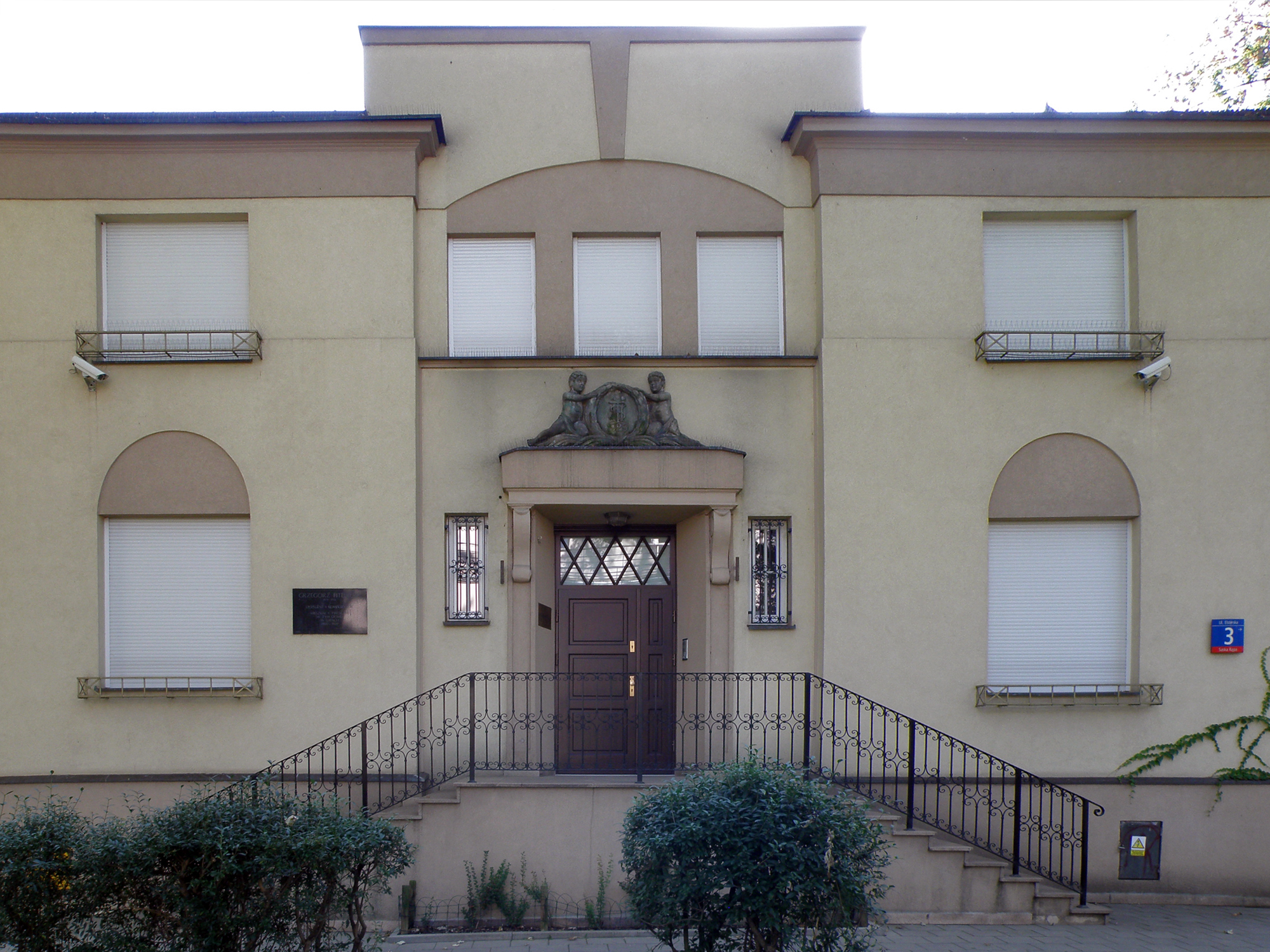 Elsterska 3, Warsawa. House of Grzegorz Fitelberg and Halina Szmolz